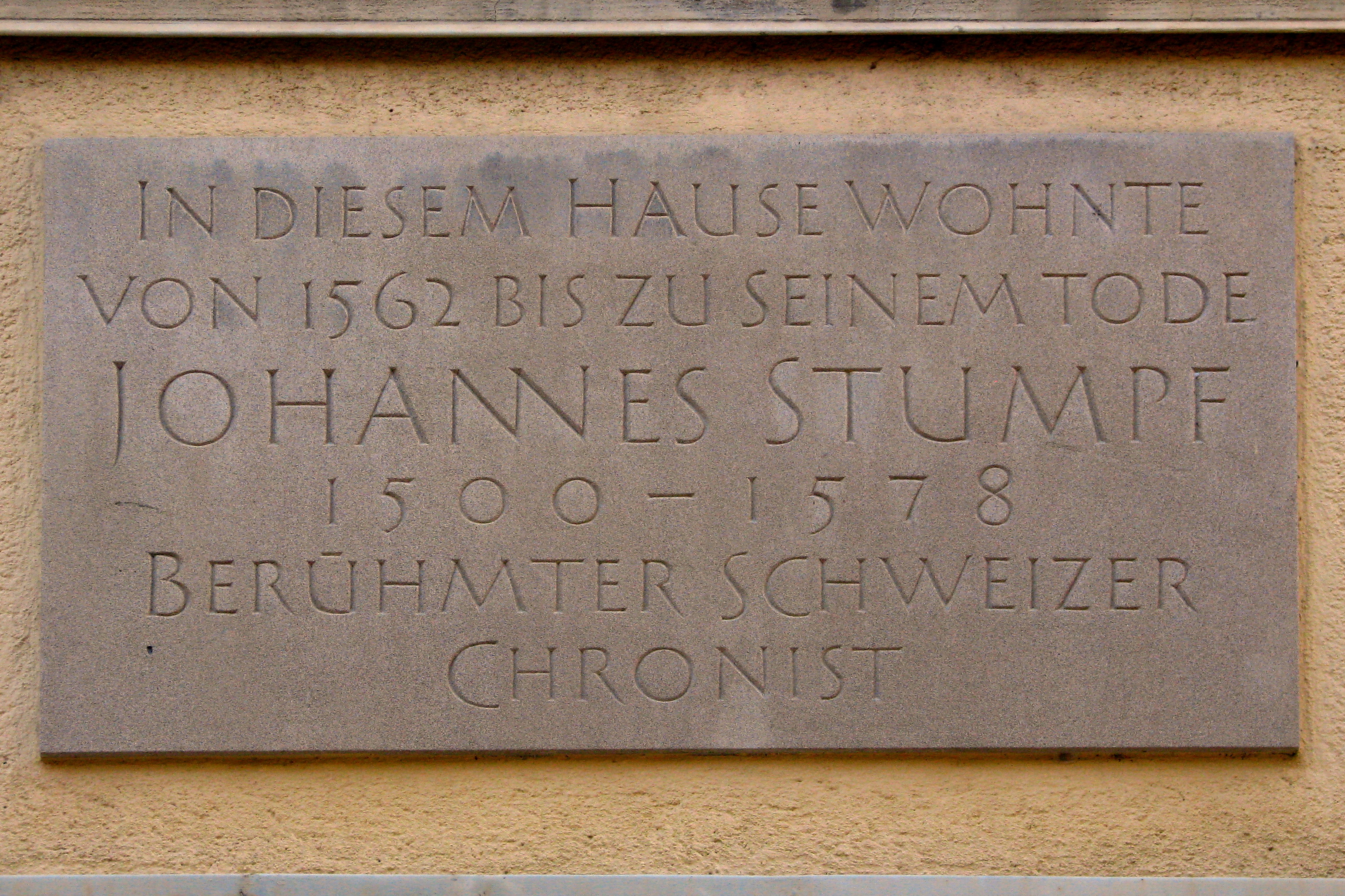 Zürich, Trittligasse : Memorial at the former home of Johannes Stumpf (* 1500; † ~1574)